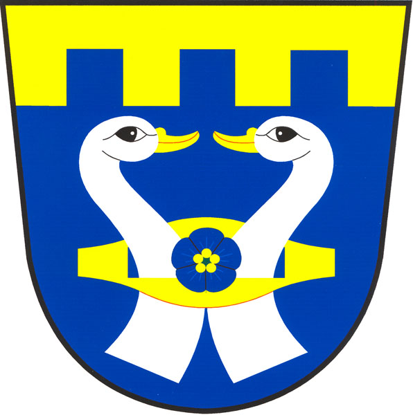 Municipal coat of arms of Lhota Rapotina village, Blansko District, Czech Republic.